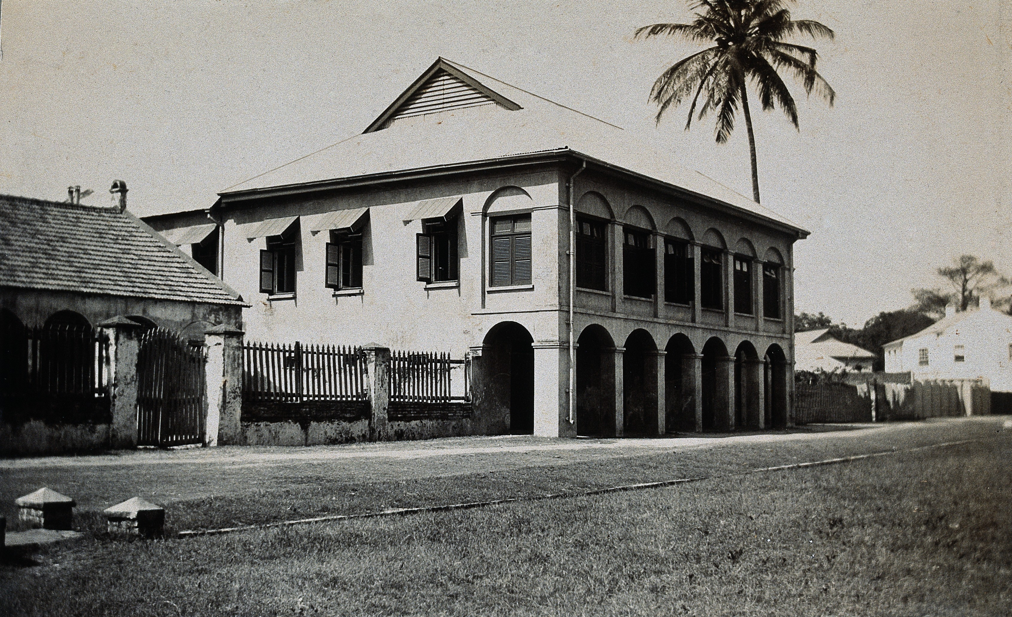 Senior Medical Officers' quarters in Bathurst, Gambia. Photograph, c. 1911. Iconographic Collections Keywords: buildings; silver gelatin photoprints; west africa